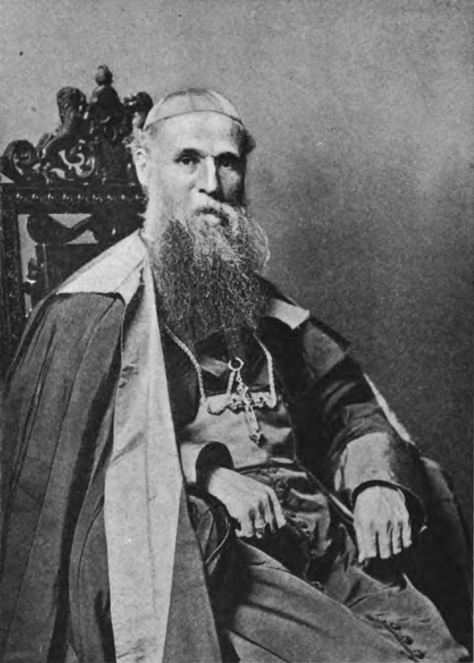 An image of Abbot Haid taken from a 1914 publication entitled "The Catholic Church in the United States of America: Undertaken to Celebrate the Golden Jubilee of His Holiness, Pope Pius X, Volume 3." The image can be found on page 260.